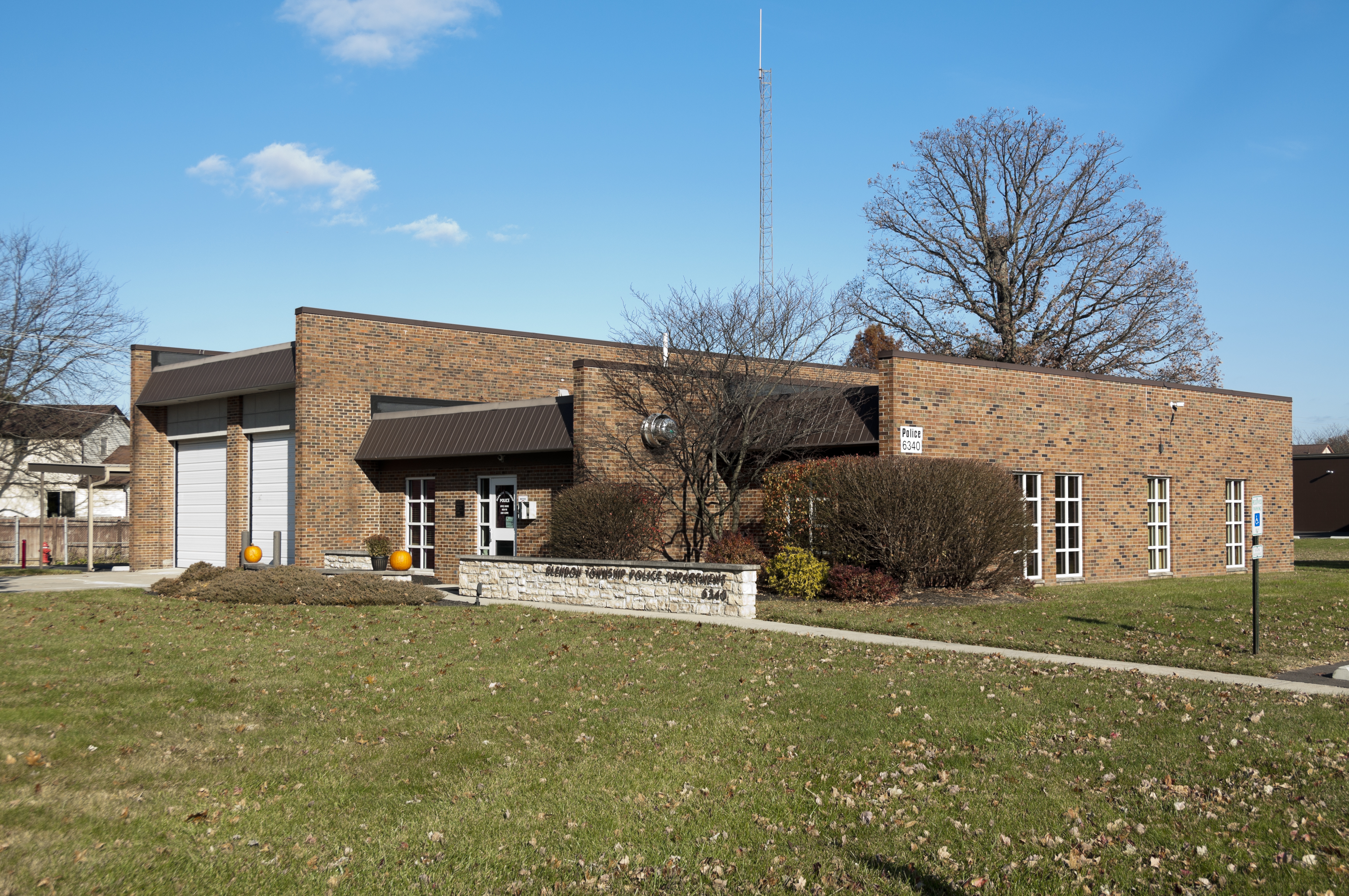 Blendon Township Police Department.